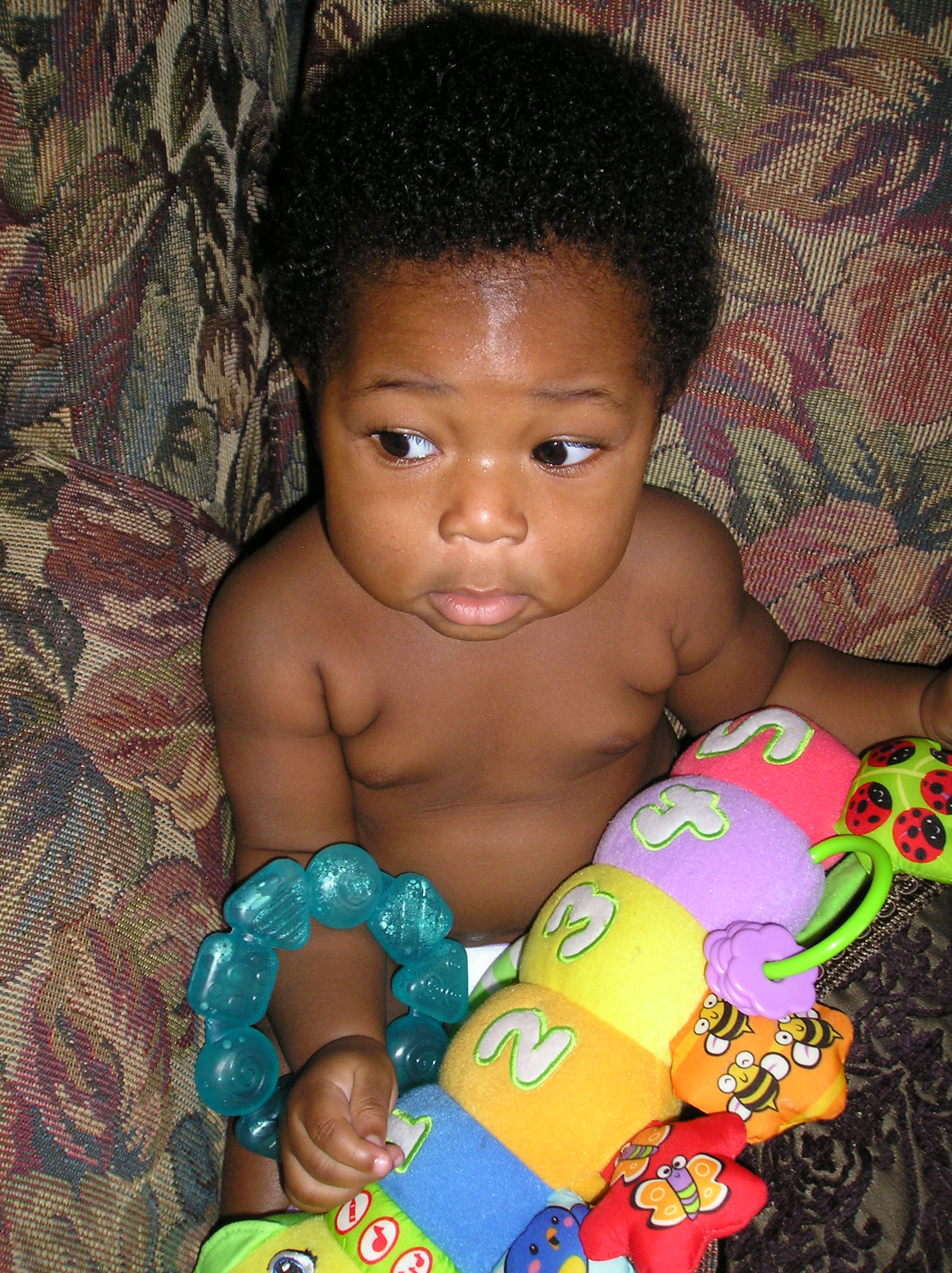 Child development play. Child with toy.